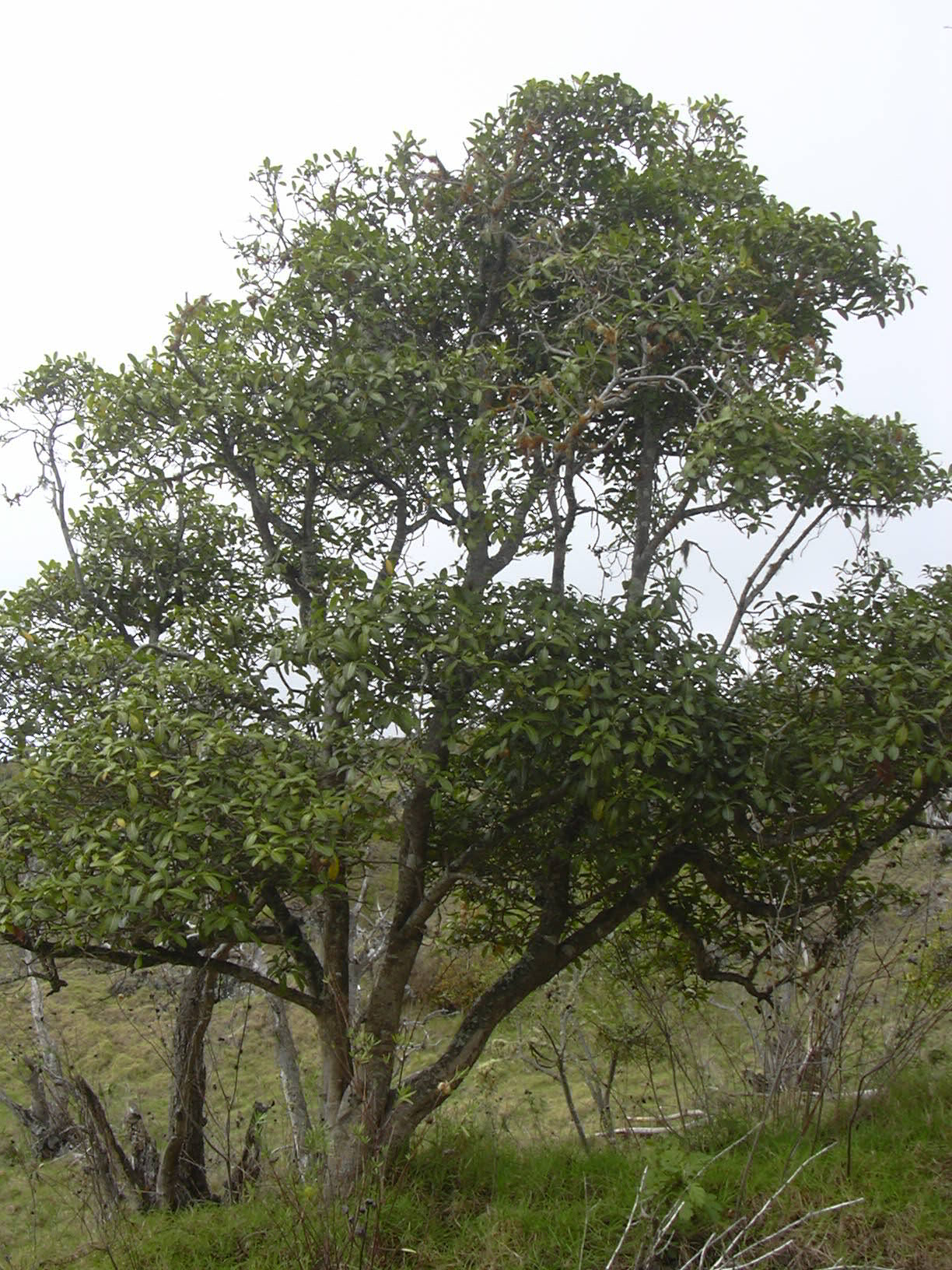 Nestegis sandwicensis (habit). Location: Maui, Auwahi